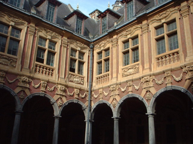 Photo of the « Vieille Bourse » in Lille, France. (view from the cloister/vue depuis le cloître). It's an old exchange built in 1652-1653.